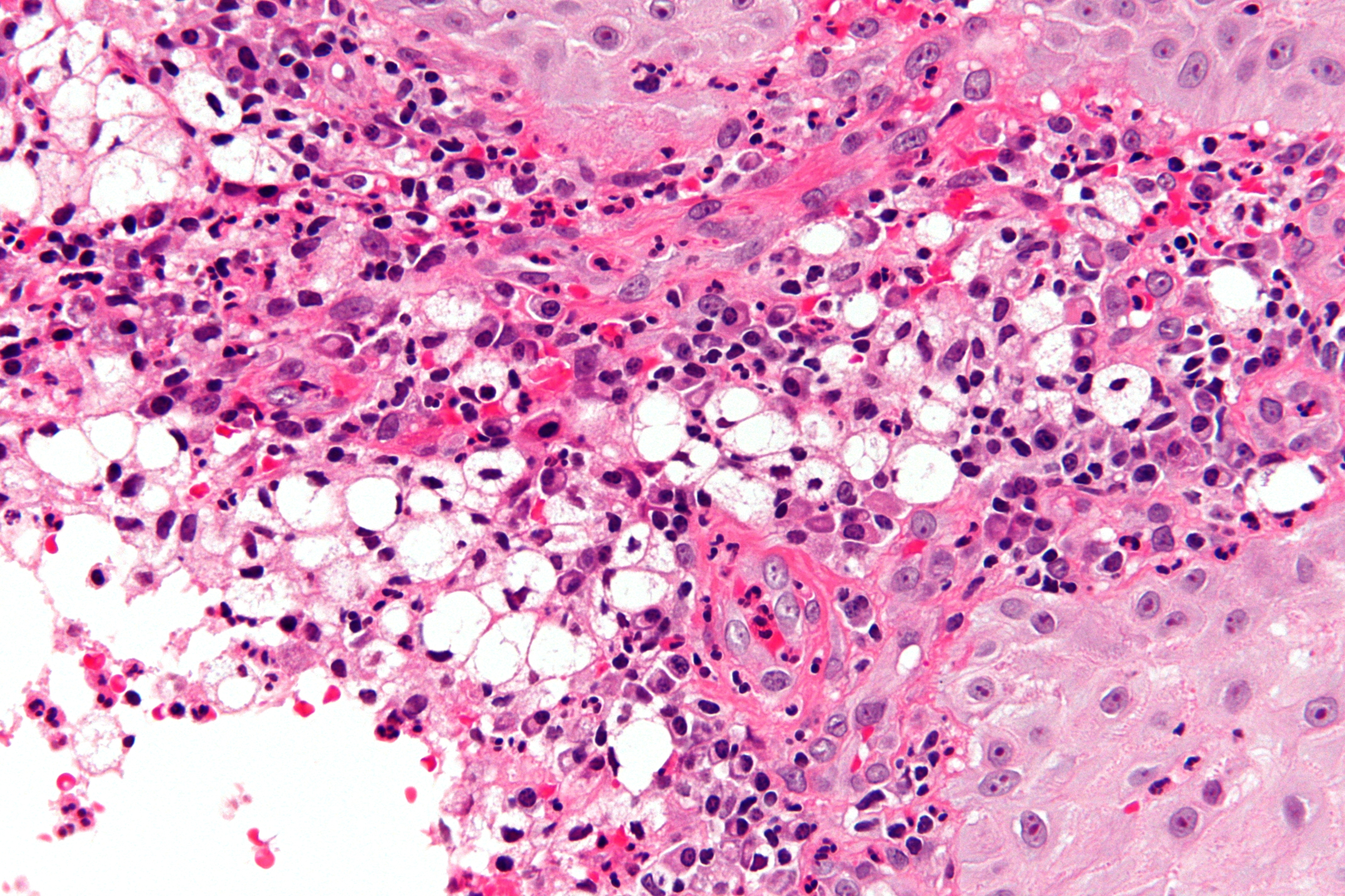 Very high magnification micrograph of rhinoscleroma. H&E stain. Silver staining demonstrated the presence of microorganisms consistent with Klebsiella rhinoscleromatis. Related images Intermed. mag. High mag. Very high mag.